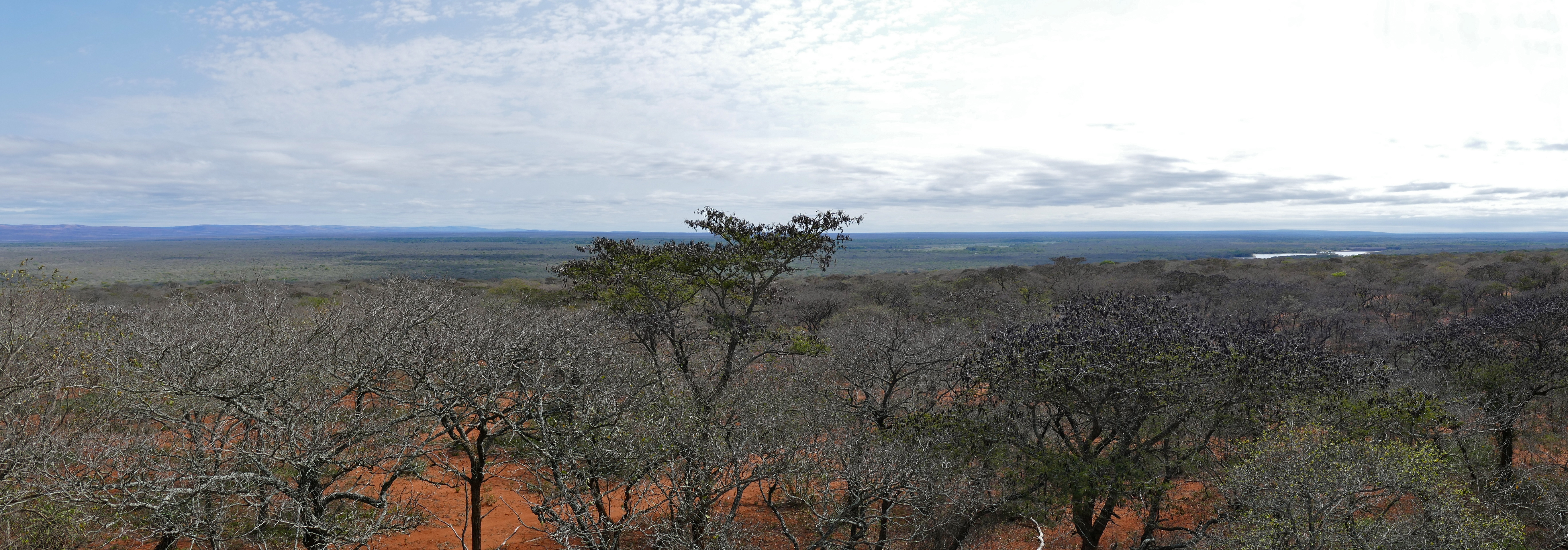 Viewing Tower, Ndumo Game Reserve, Maputaland, KwaZulu-Natal, SOUTH AFRICA